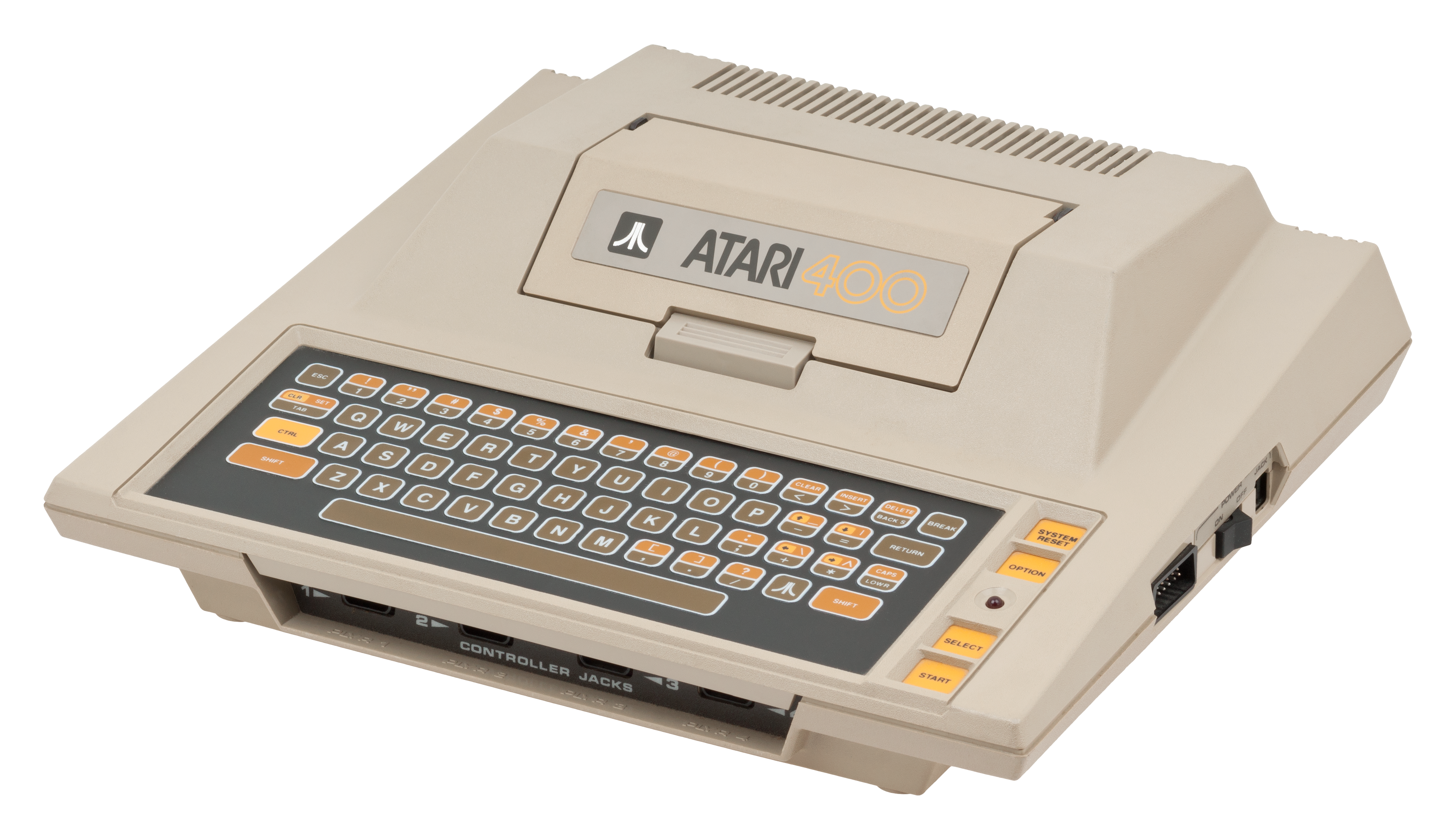 The Atari 400, an 8-bit home computer that was released by Atari in 1979.